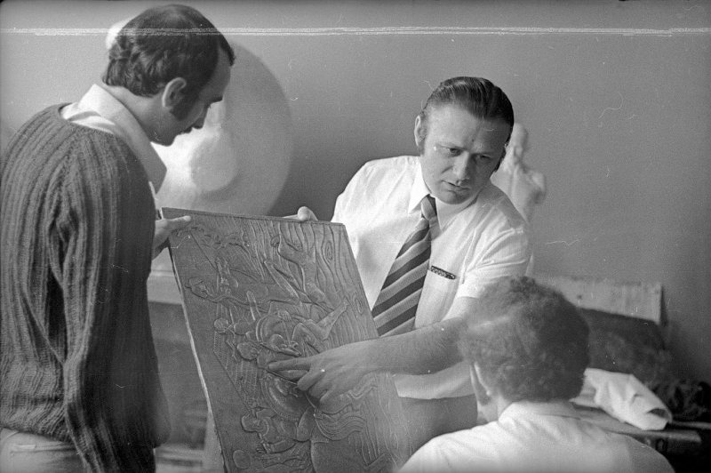 Artist Soso Koiava at his studio. Tbilisi, Georgia. August 1975